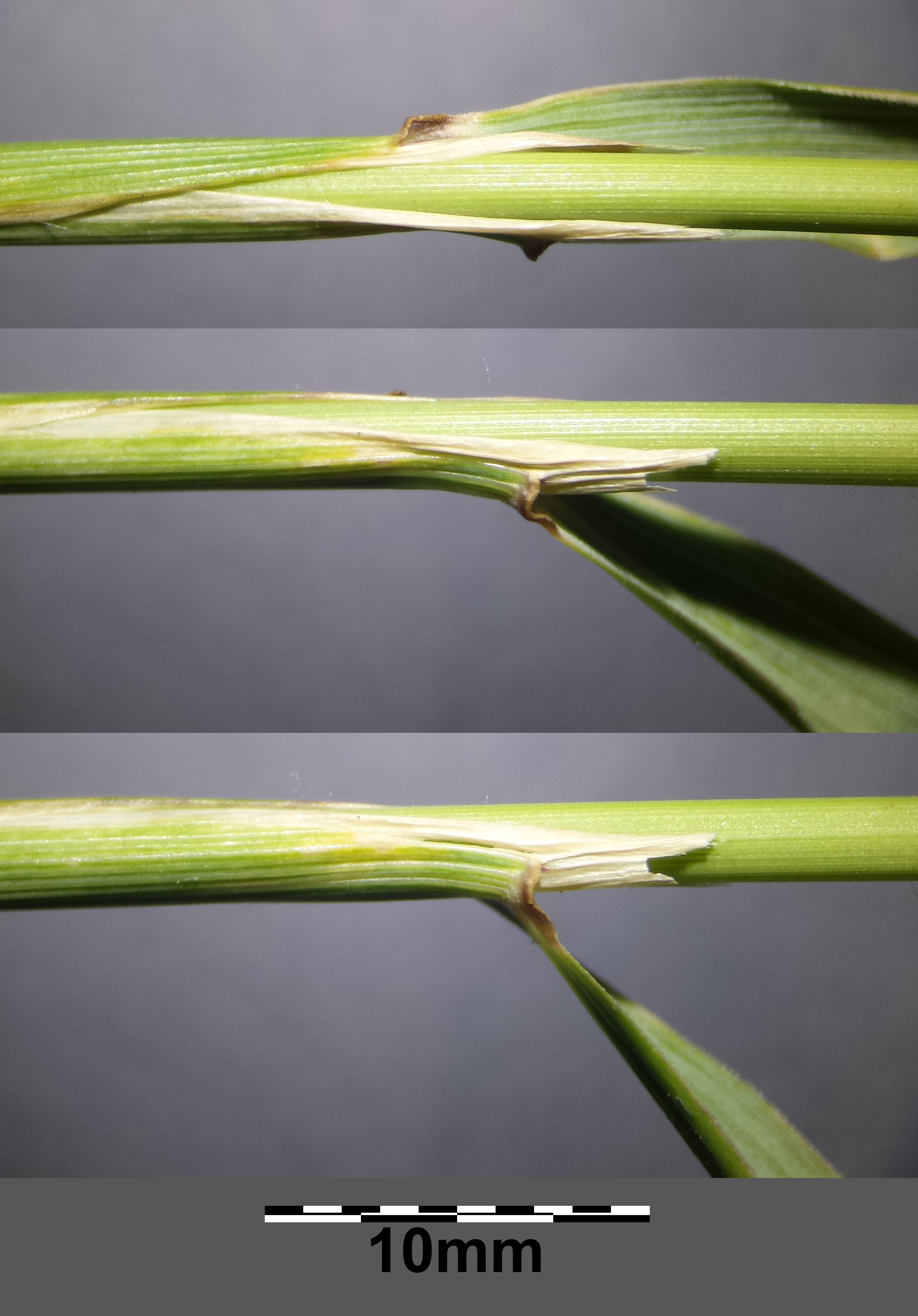 Stem with leaf sheath and ligule Taxonym: Calamagrostis epigejos ss Fischer et al. EfÖLS 2008 ISBN 978-3-85474-187-9 Location: Neue Donau, Vienna-Floridsdorf - ca. 160 m a.s.l. Habitat: shore